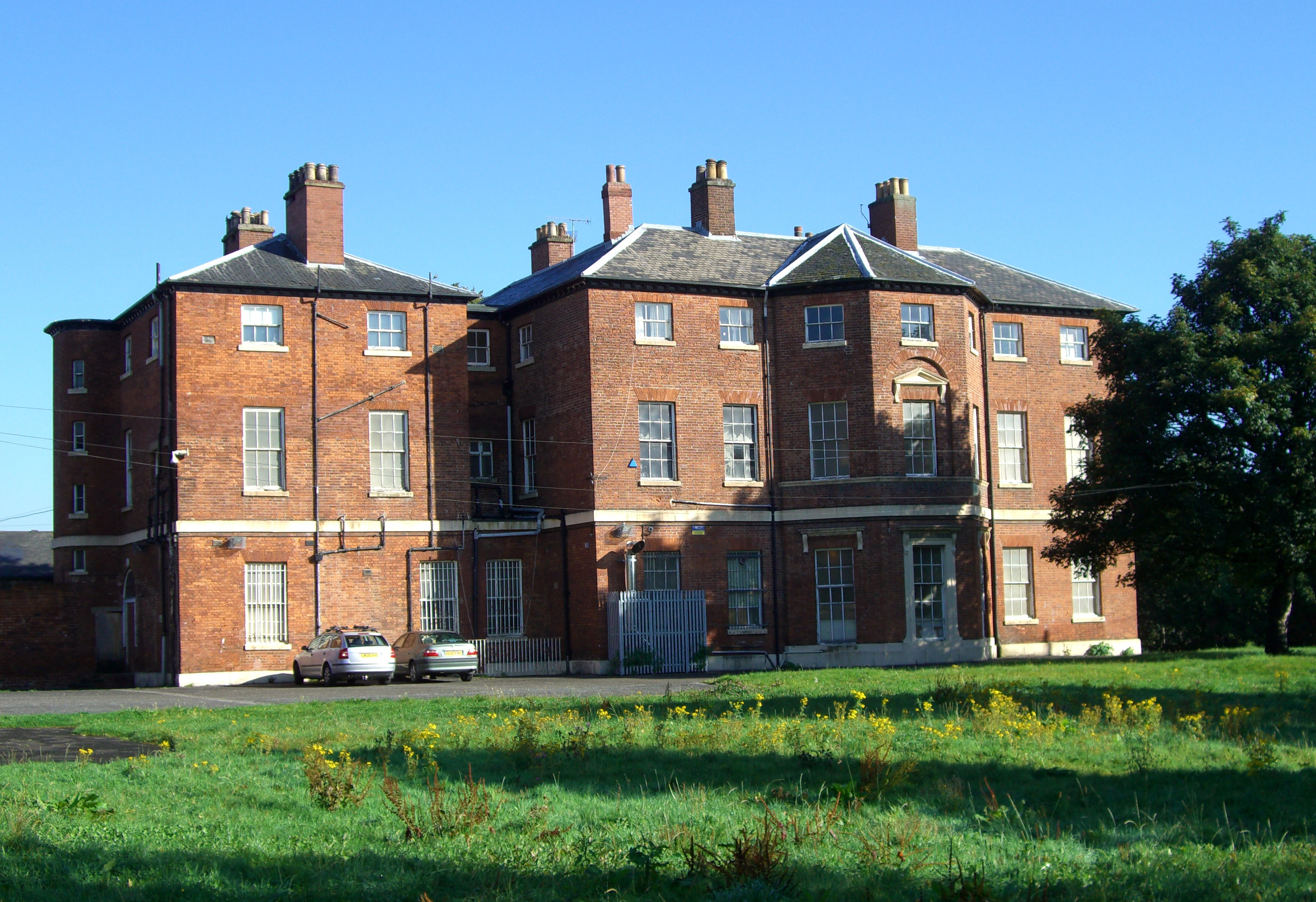 Mount Pleasant Community Centre in Sheffield, South Yorkshire, England